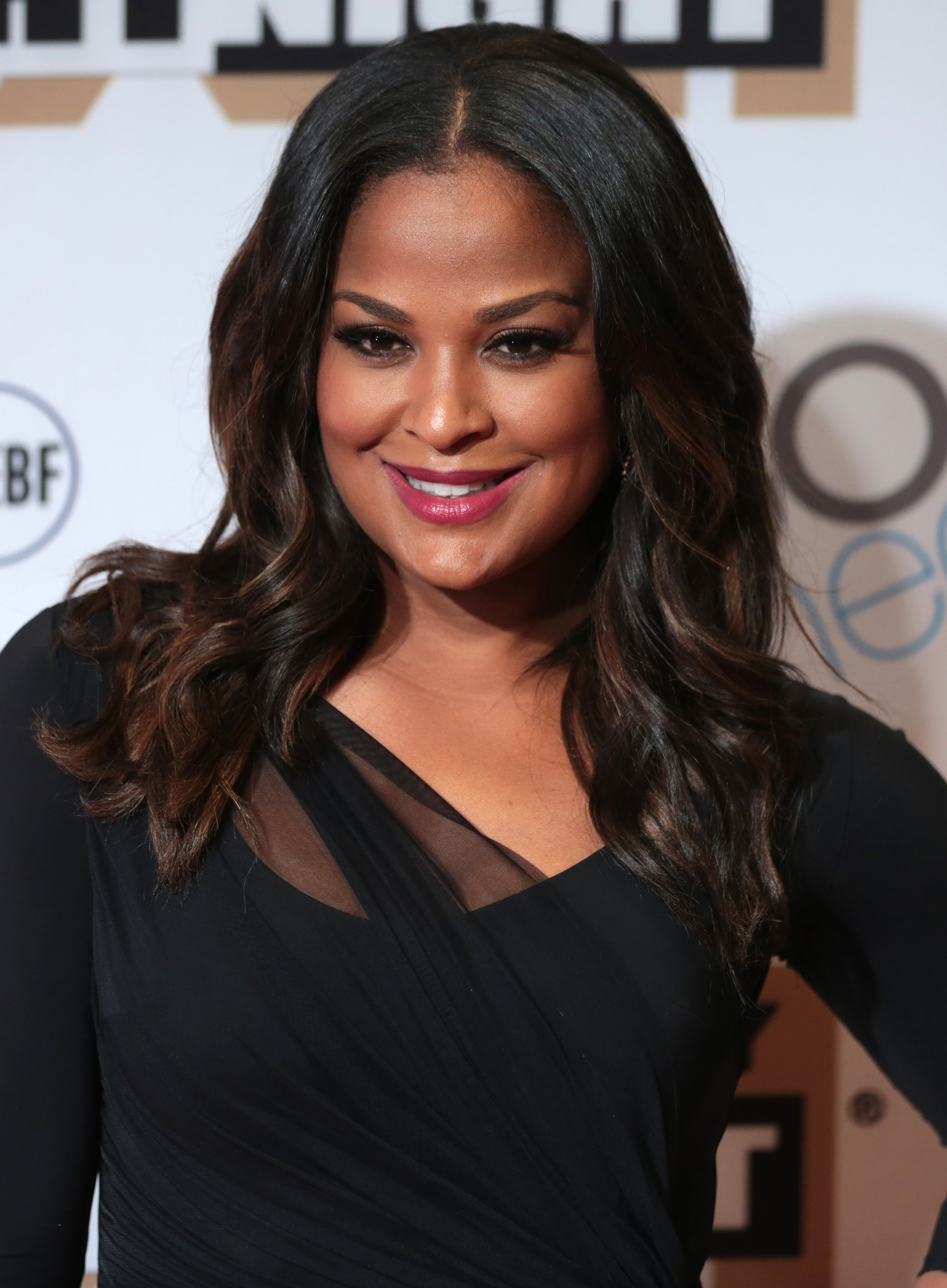 Laila Ali at Celebrity Fight Night XXIII in Phoenix, Arizona.